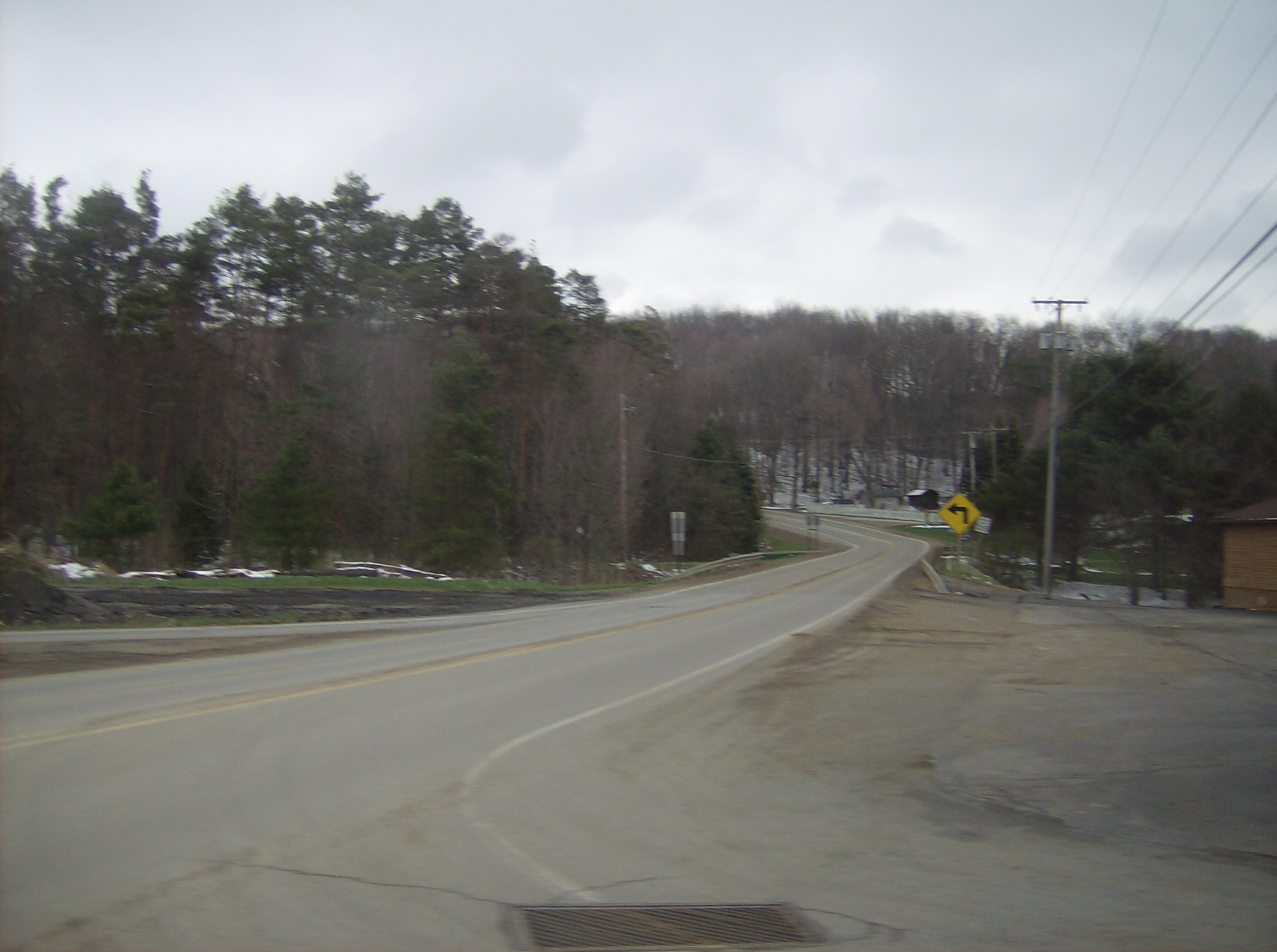 View of the intersection of U.S. Route 19 and Pennsylvania Route 108 on the eastern side of Harlansburg, Pennsylvania, United States.